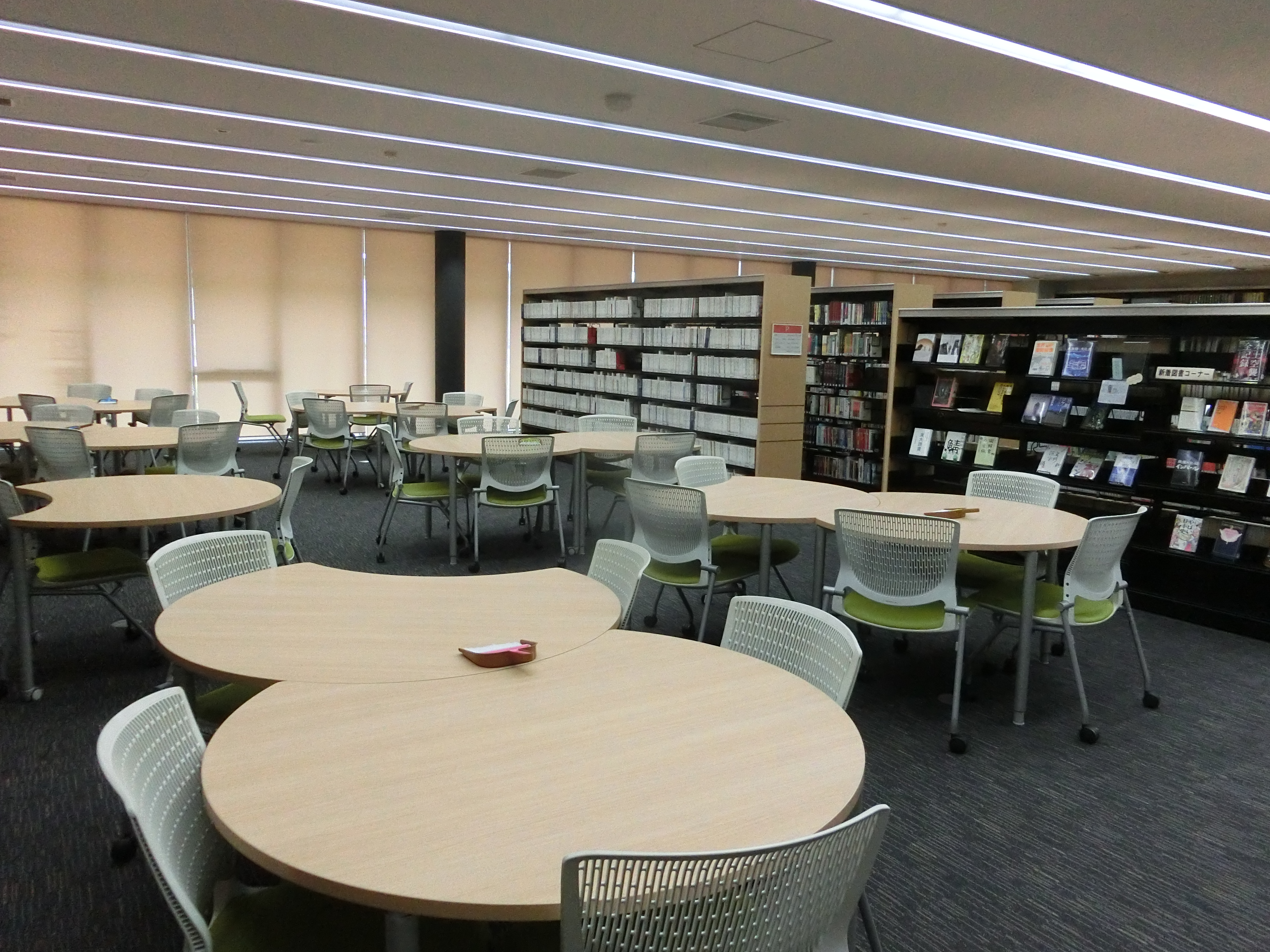 Toyo University Attached to Himeji Junior High School, High School Library